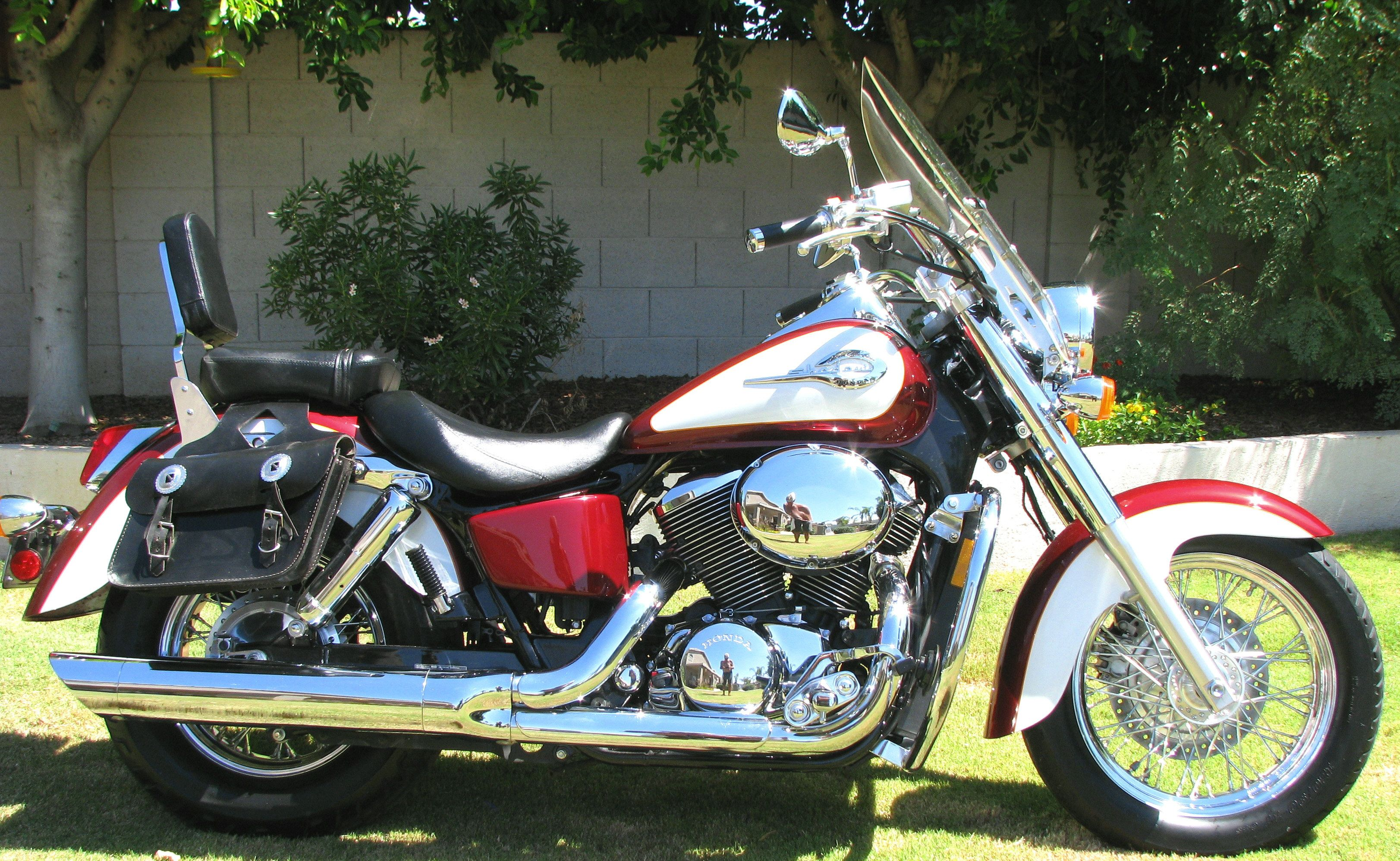 Image title: Honda Shadow Image from Public domain images website